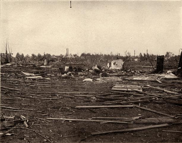 Tornado damage in the town of Mattoon, part of a severe outbreak of tornadoes that killed more than 100 people.